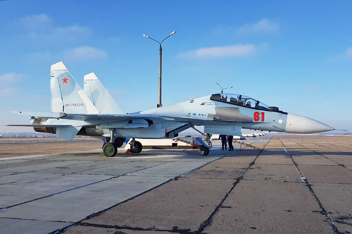 Sukhoi Su-30SM of the 14th Guards Fighter Aviation Regiment of the Russian Air Force.